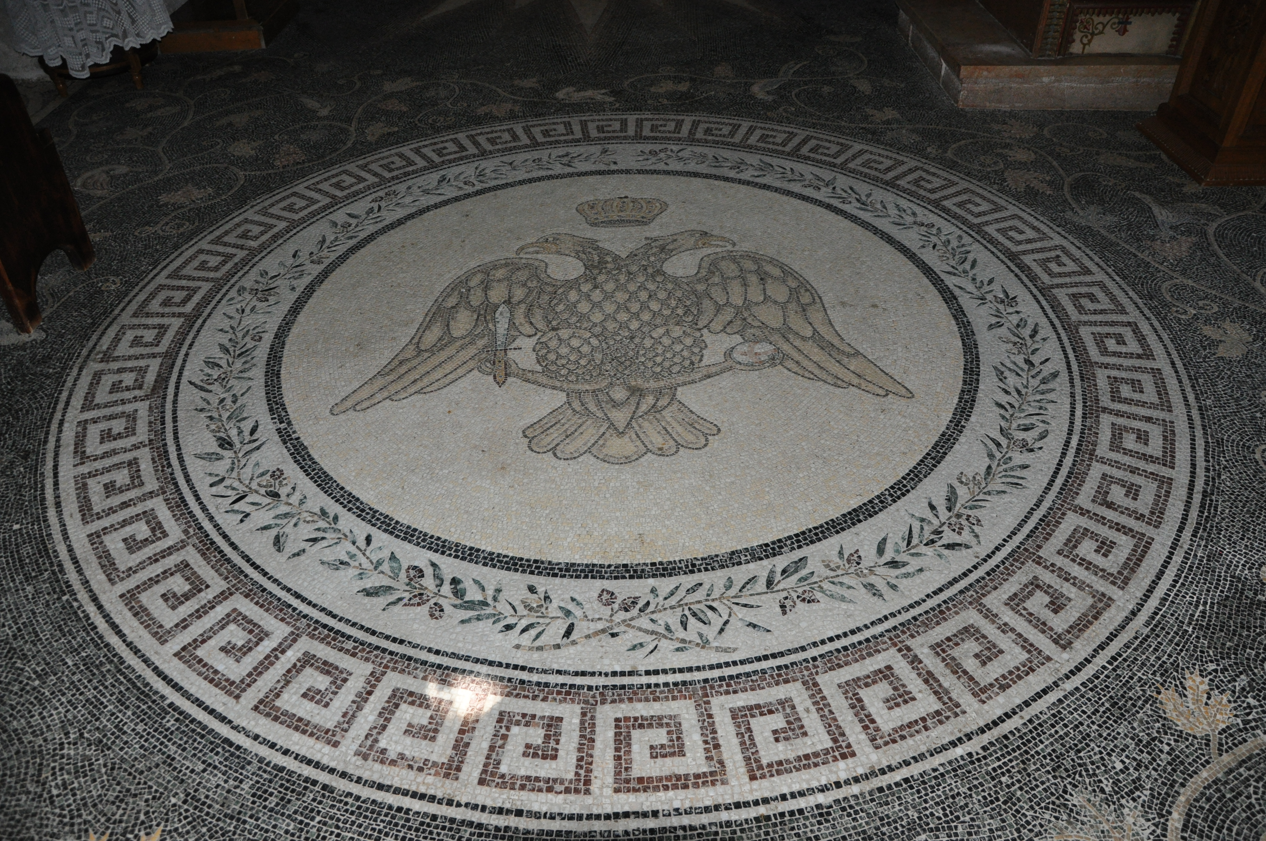 double eagle